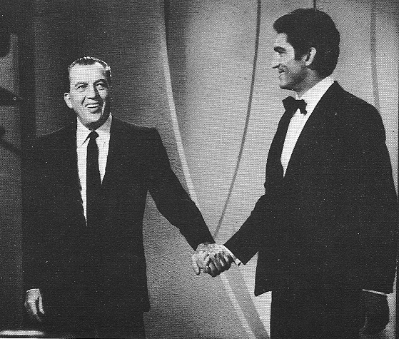 Ed Sullivan presents Sergio Franchi